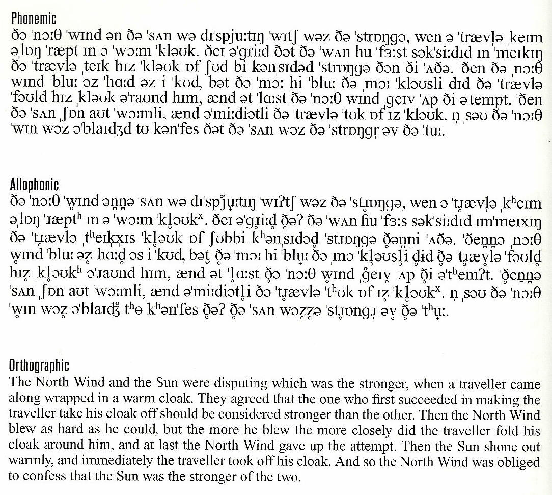 Transcriptions (scanned) corresponding to File:Recording of speaker of British English (Received Pronunciation).ogg